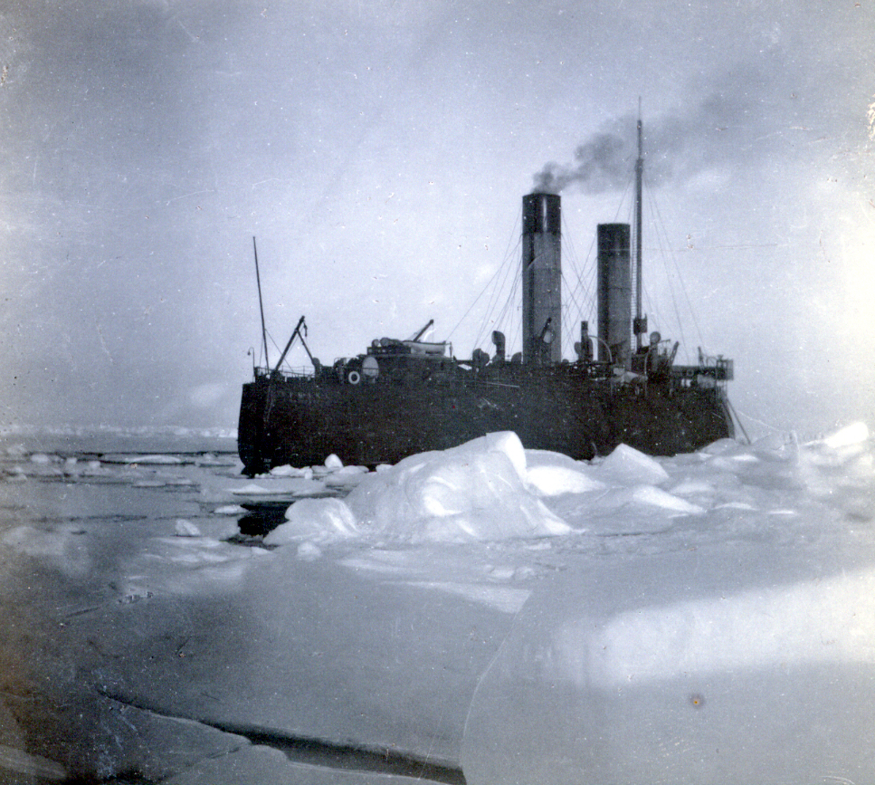 Yard no. 684, Ermack. Showing the icebreaker 'Ermack' in the ice The Ermack was built on the Tyne at the Walker Yard by Vickers Armstrong & Co Ltd. Reference: TWAS: ds.va/3/G7901GGG (Copyright) We're happy for you to share this digital image within the spirit of The Commons. Please cite 'Tyne & Wear Archives & Museums' when reusing. Certain restrictions on high quality reproductions and commercial use of the original physical version apply though; if you're unsure please . To purchase a hi-res copy please quoting the title and reference number.